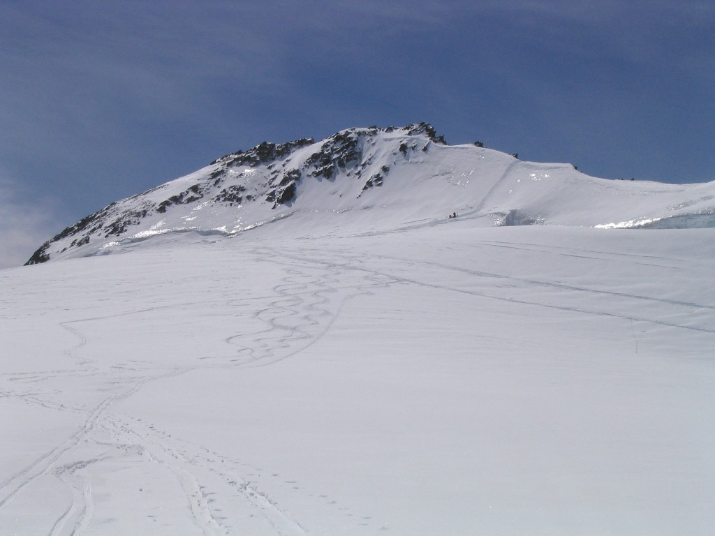 Hinter Fiescherhorn